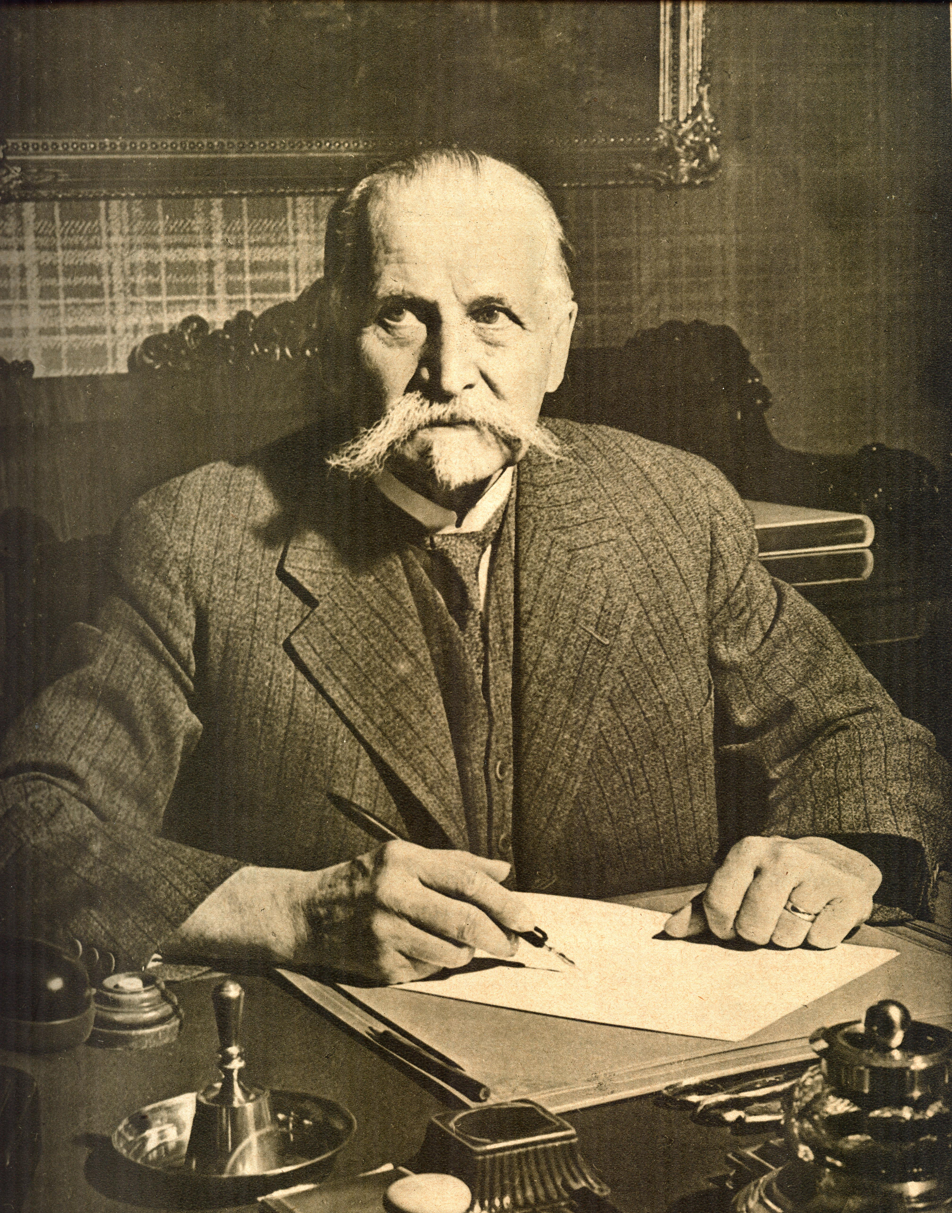 Finland's president Kyösti Kallio.